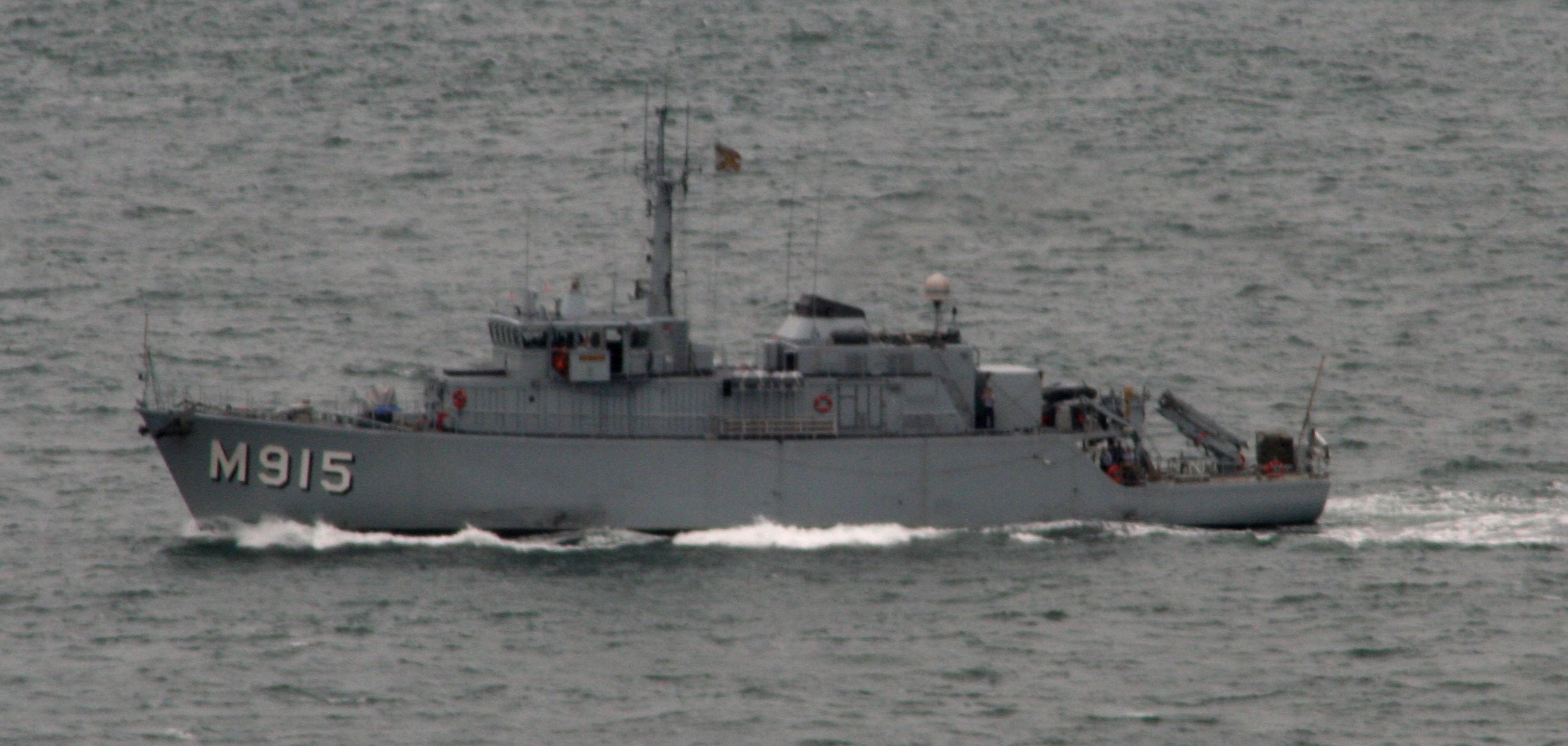 M915 Aster, Tripartite class mine hunter, of the Belgian Navy, sailing out of the Solent.